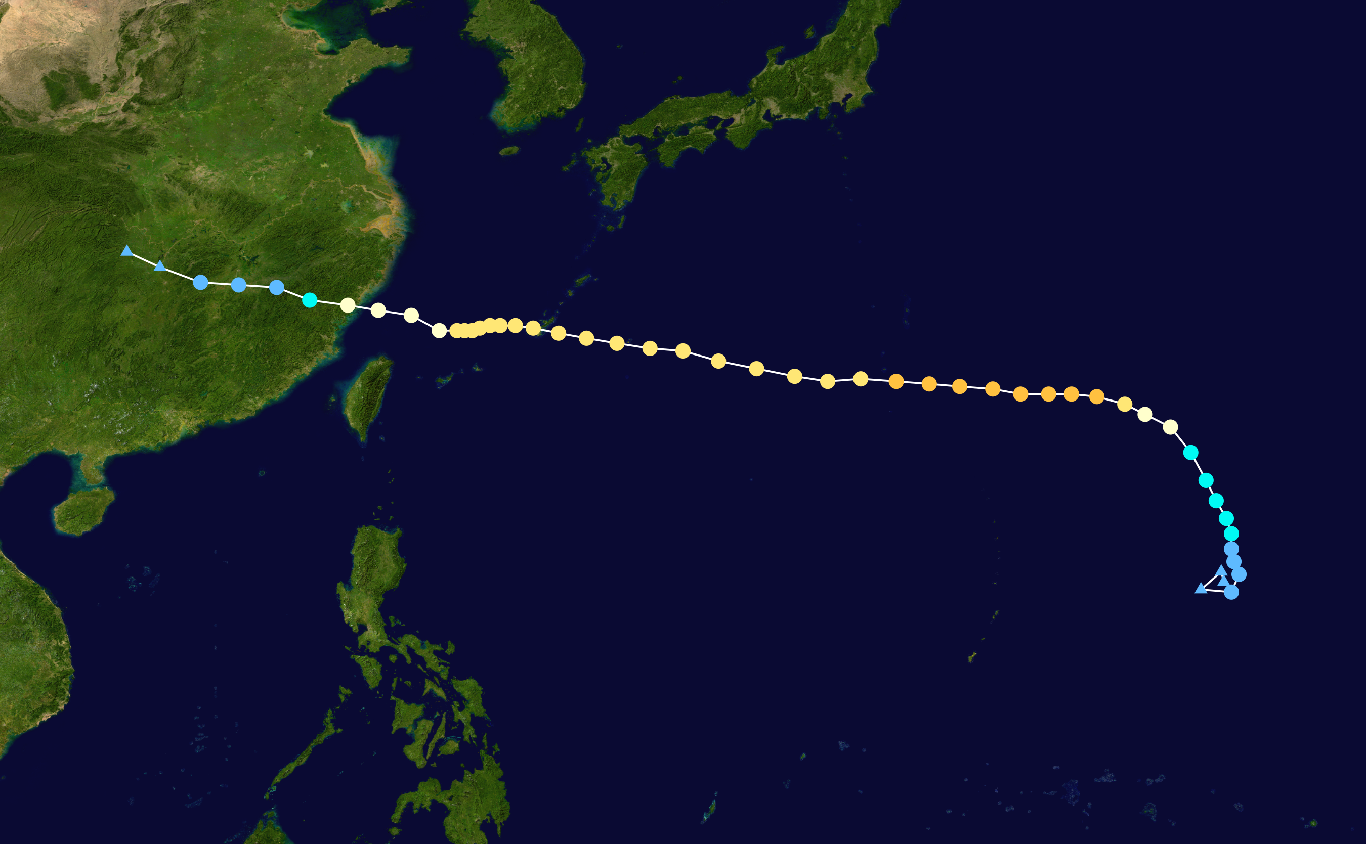 Typhoon Sinlaku 2002 track. Uses the color scheme from the Saffir-Simpson Hurricane Scale.